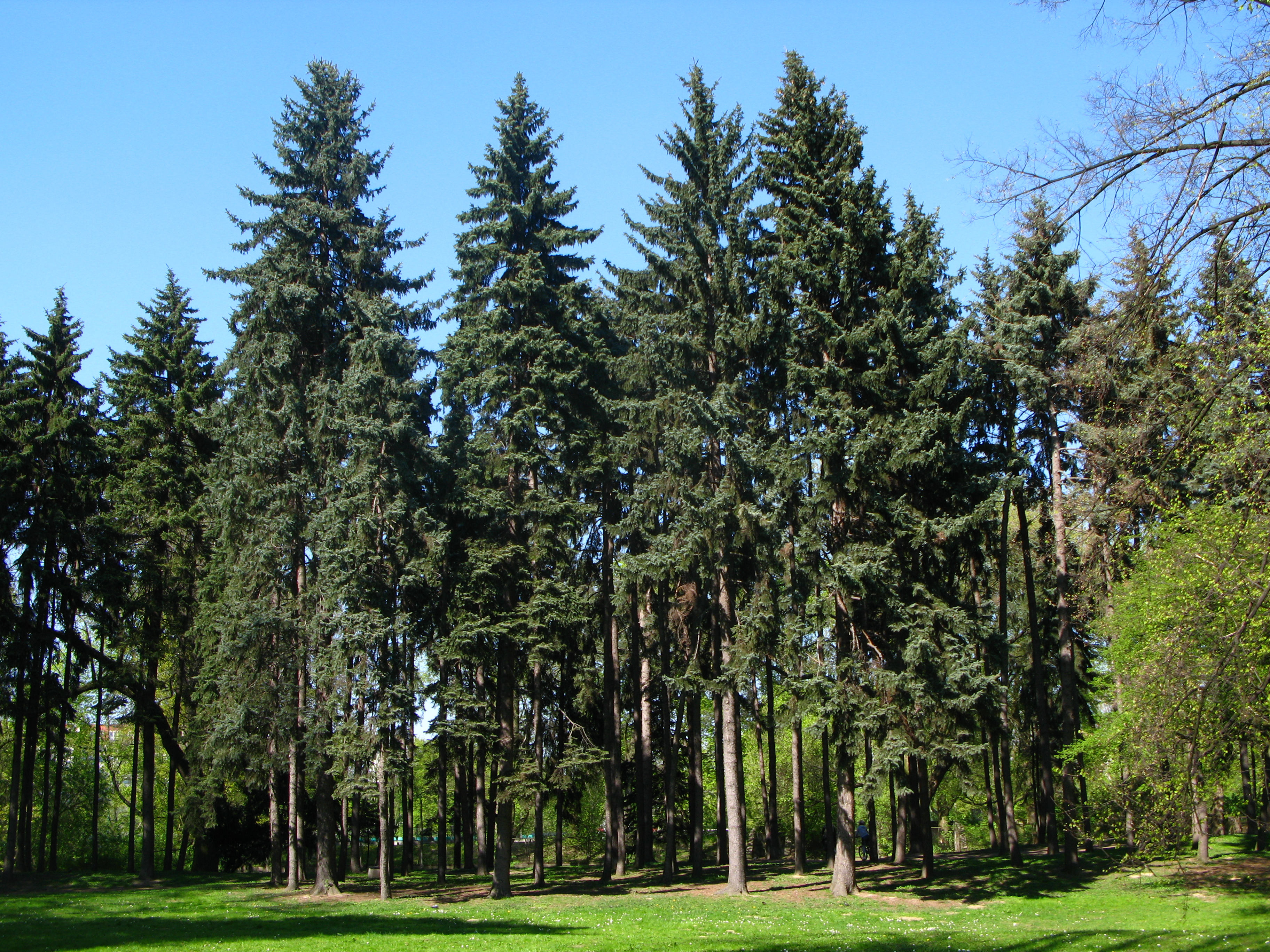 Picea pungens var. glauca in Park Skaryszewski